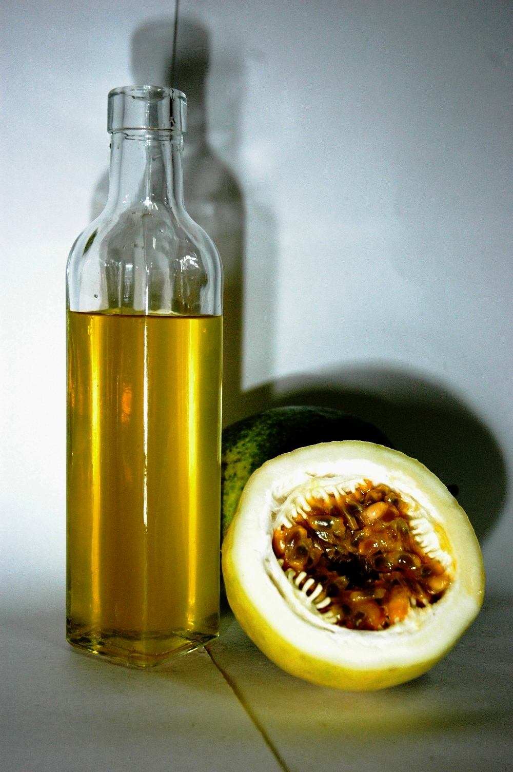 Virgin oil of Passionfruit